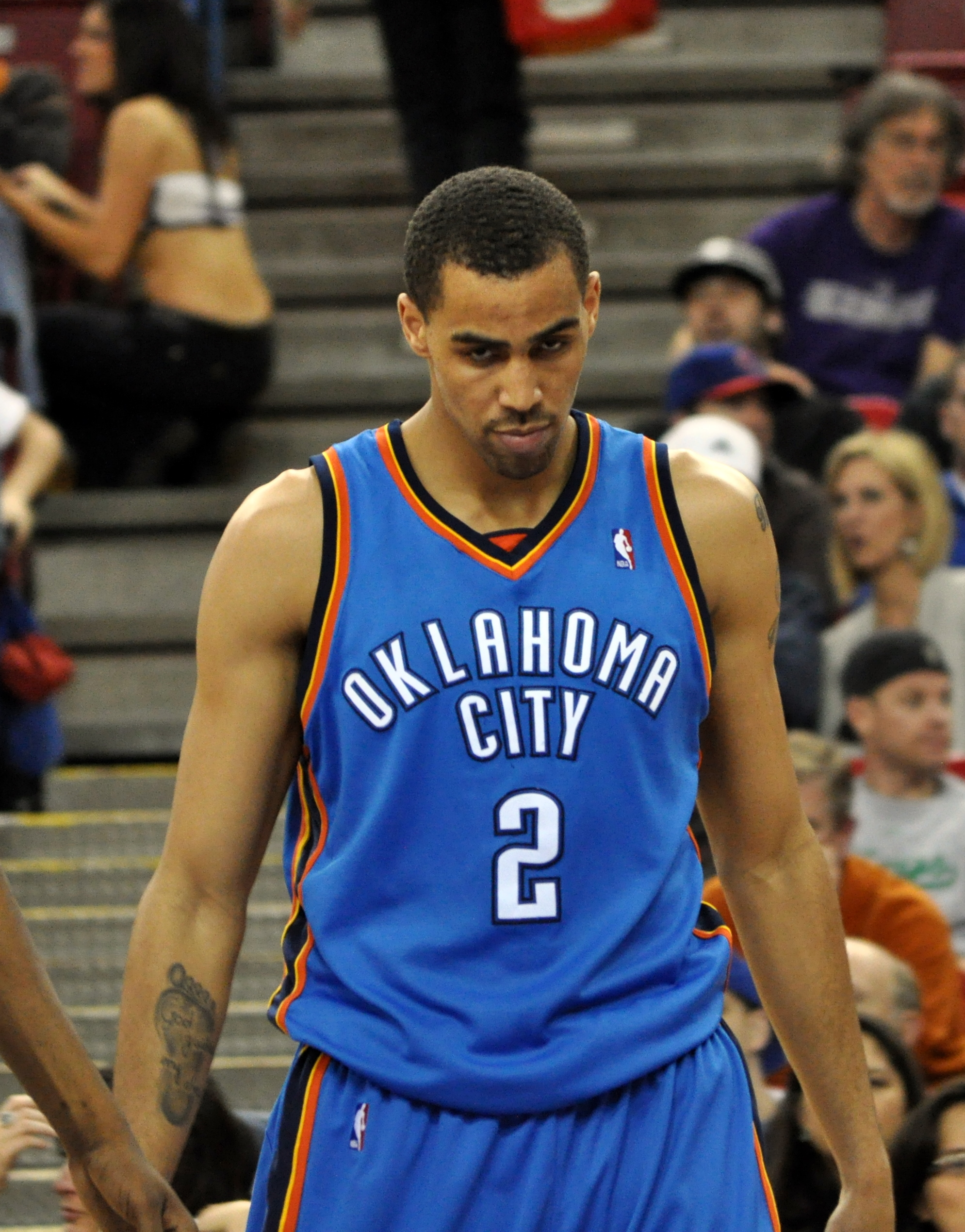 Thabo Sefolosha of the Oklahoma City Thunder.